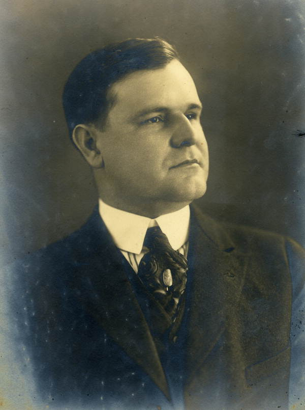 Portrait of John Martin, governor of Florida from 1925-1929.